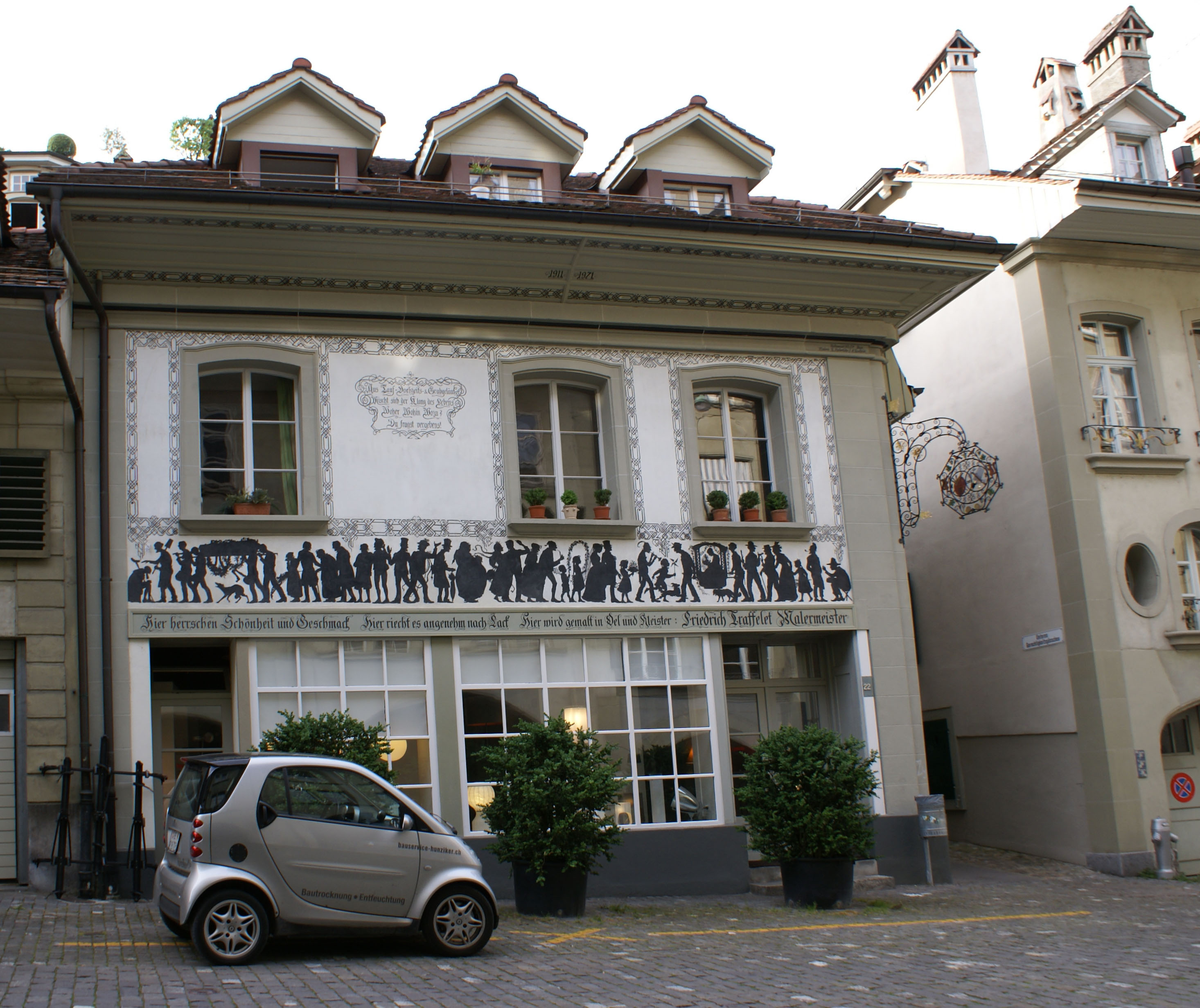 Junkerngasse 22, Berne; former atelier of painter Friedrich Traffelet.